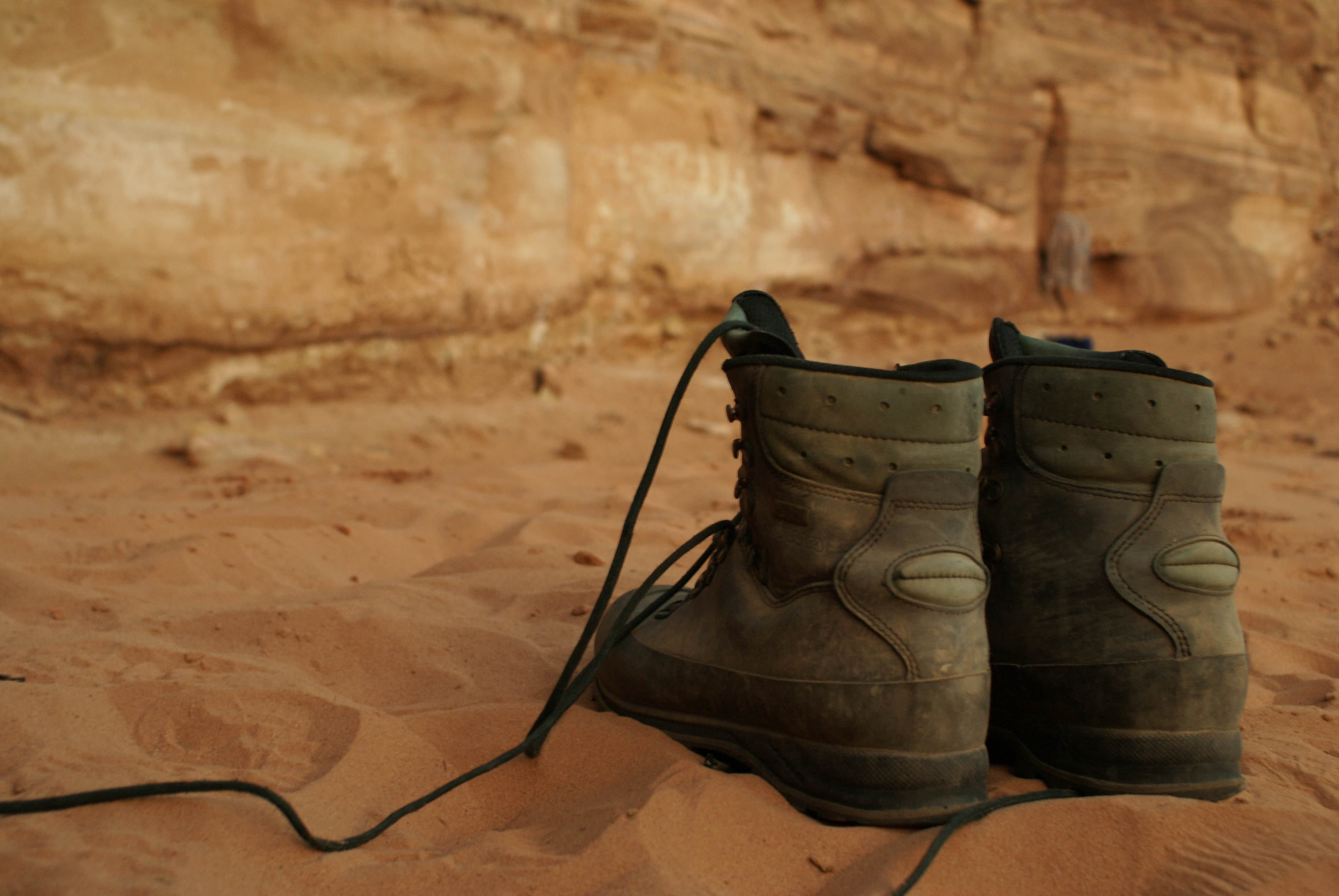 A pair of Lowa hiking boots on red desert sand in the Sinai Desert, Egypt. This pair of boots is designed for heavy alpine use, with strong water-repellent features such as a coated surface and rubber reinforcements. However, they were a valuable tool for climbing and hiking in the desert as well. No geolocation information available.